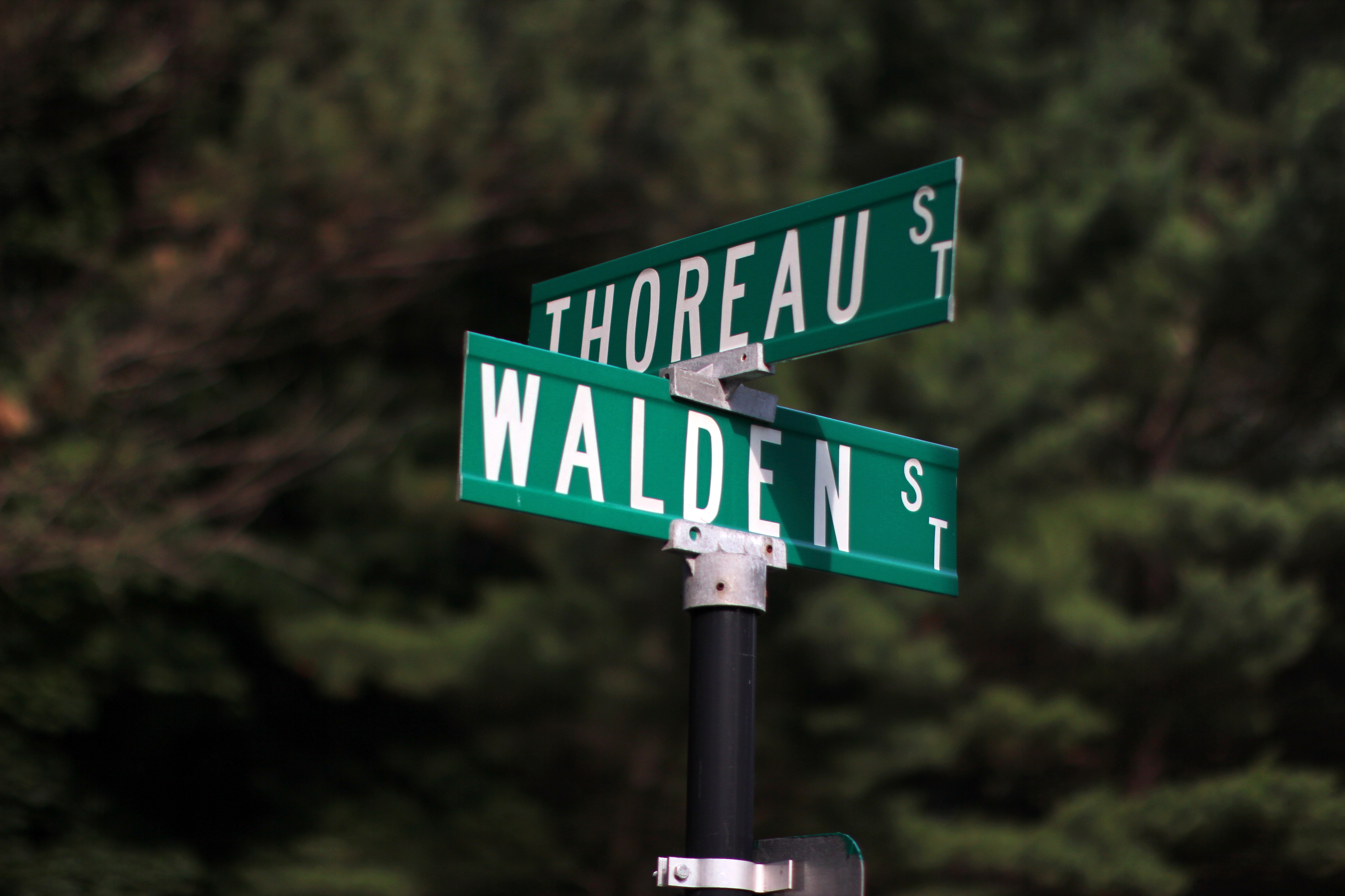 The corners of Thoreau and Walden Streets in Concord Mass. USA